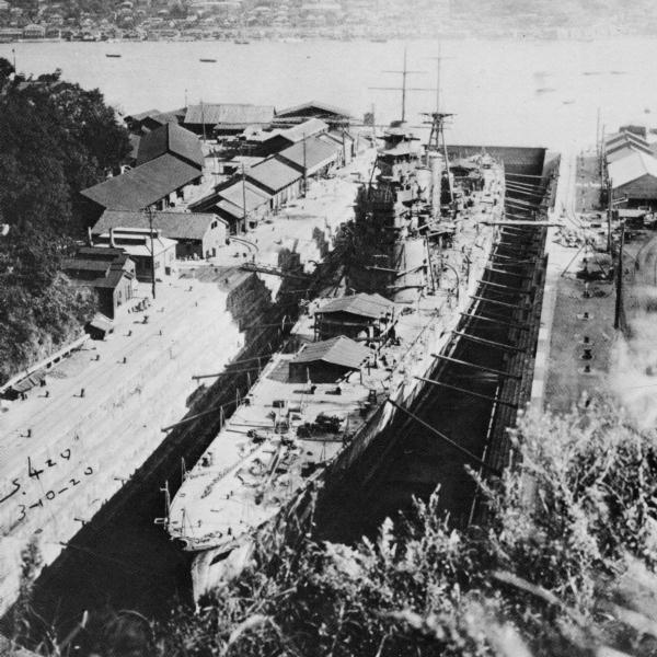 Japanese heavy cruiser HAGURO under construction at No.3 dry dock of Nagasaki shipyards, MITSUBISHI Shipbuilding, which is renamed to MITSUBISHI Heavy Industory in 1934.